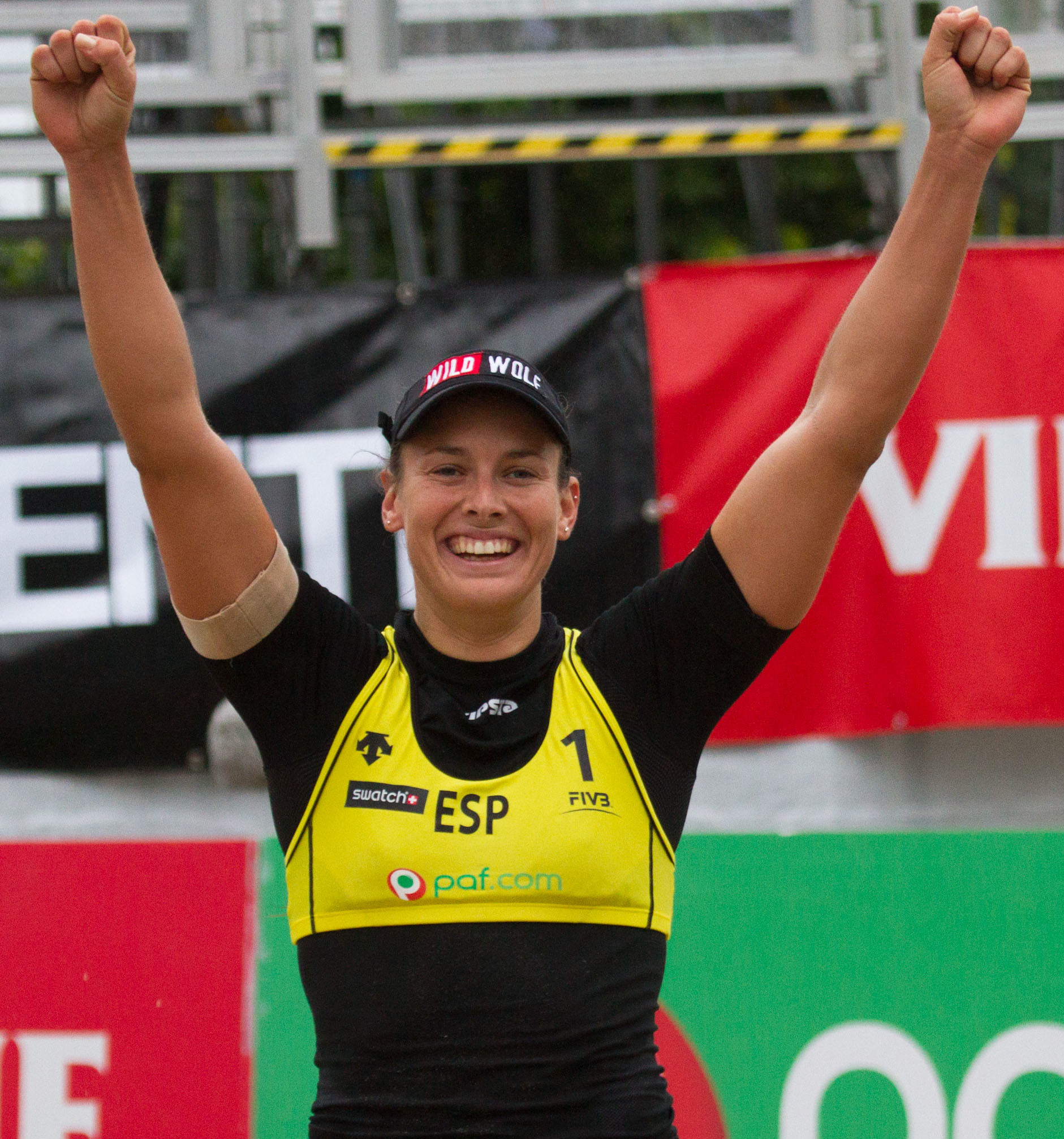 Liliana and Baquerino of Spain beat Ukalova and Khomyakova of Russia in the semi-final on September 1 2012 to book their place in the final of Paf Open in Mariehamn, Åland, Finland. Photograph: Rob Watkins/ This picture is free to use as long as it it credited: Rob Watkins/